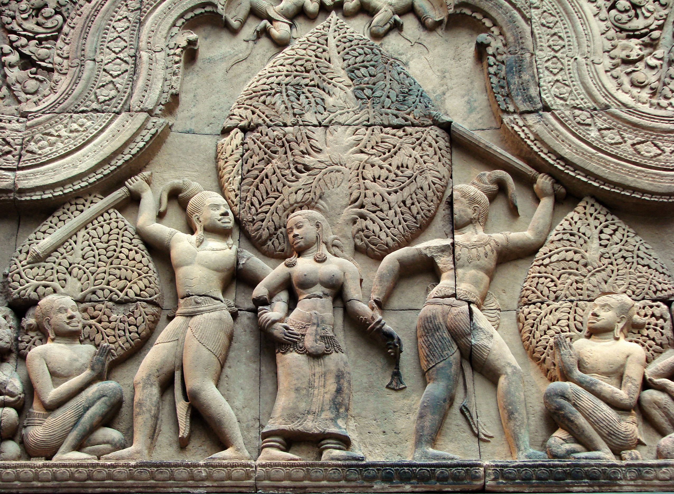 Fronton, the Sunda and asura Upasunda disputing the apsara Tilattama. Cambodia, Siem Reap province, Banteay Srei, about 967. Sandstone. Musée Guimet, Paris.